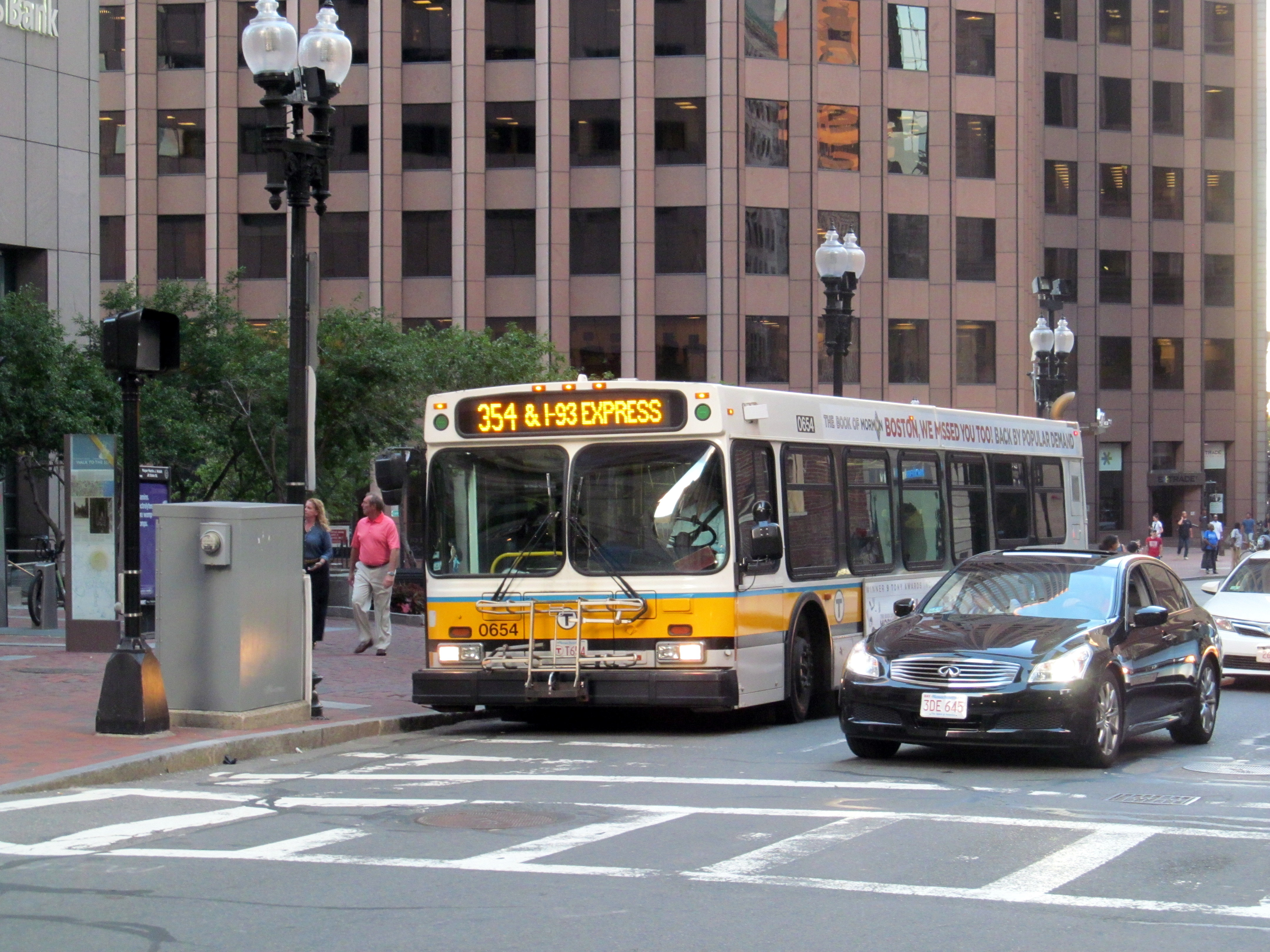 A #354 bus stopped on State Street in August 2015